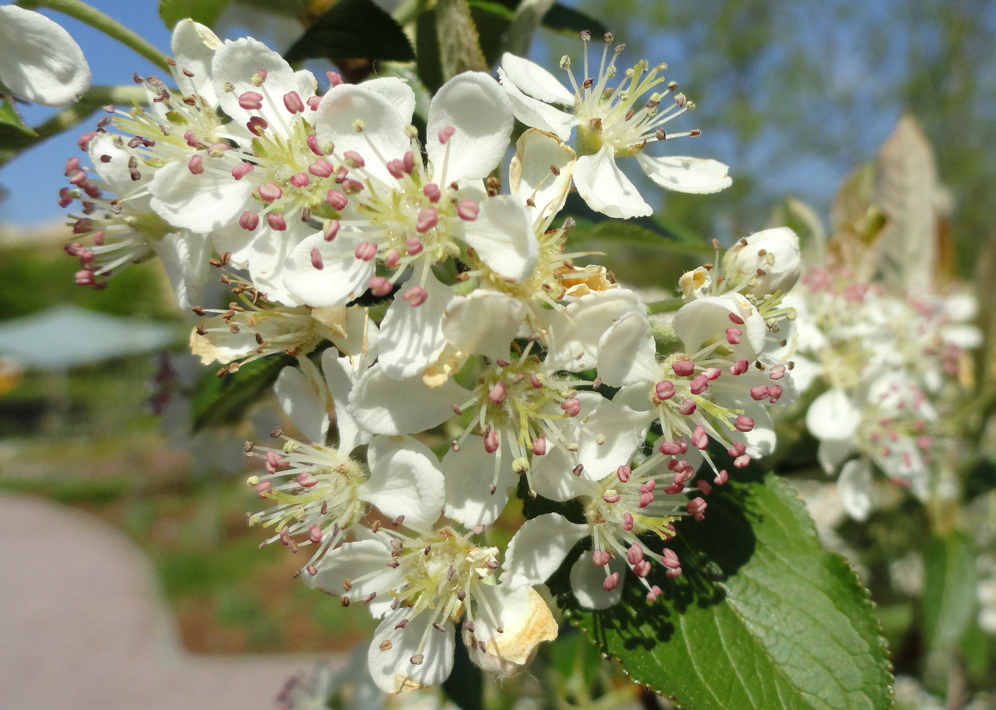 Aronia arbutifolia 'Brilliantissima' - United States Botanic Garden, Washington, DC, USA.